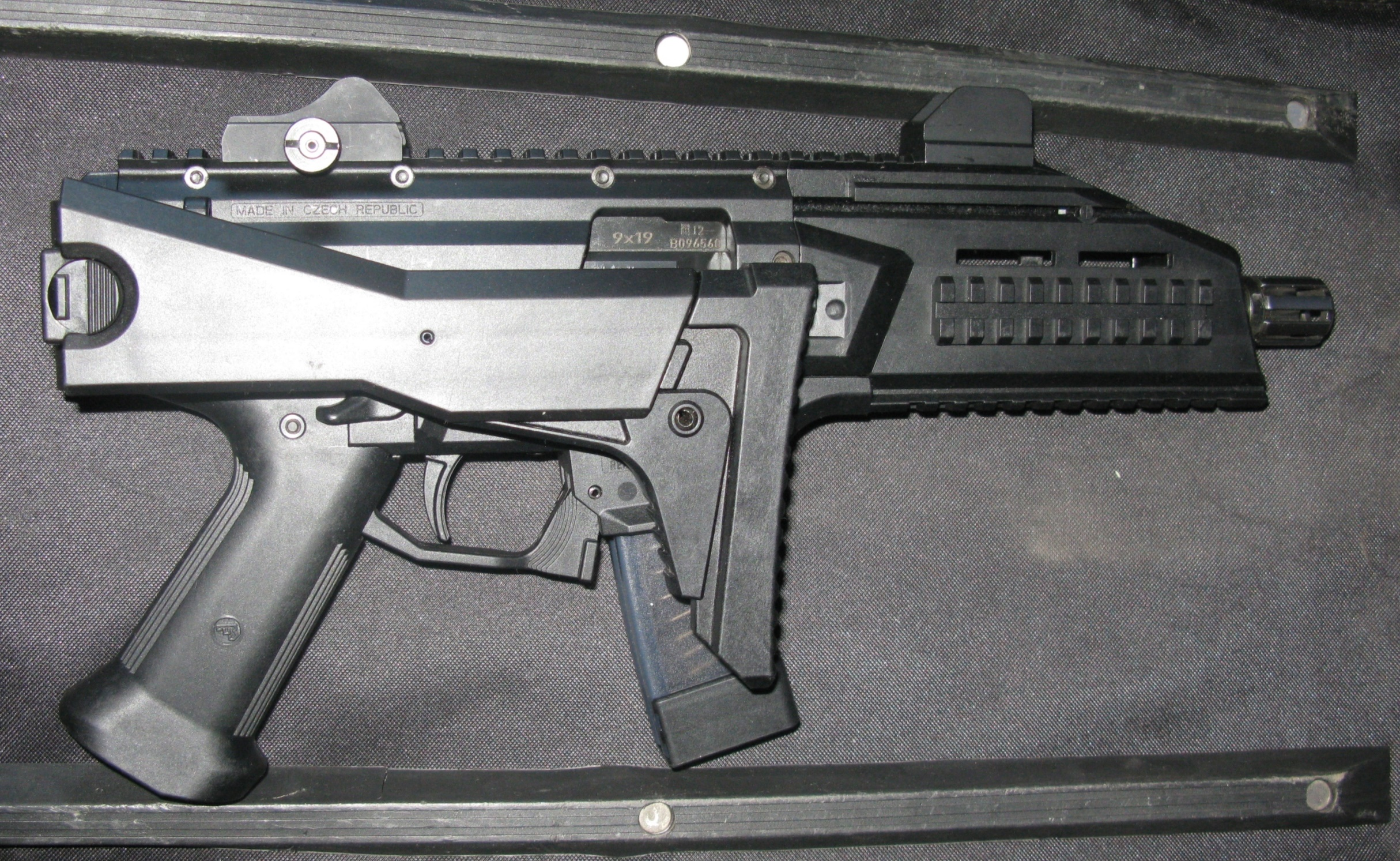 9 mm semi-auto CZ Scorpion EVO 3 S1 pistol-carbine, right view.